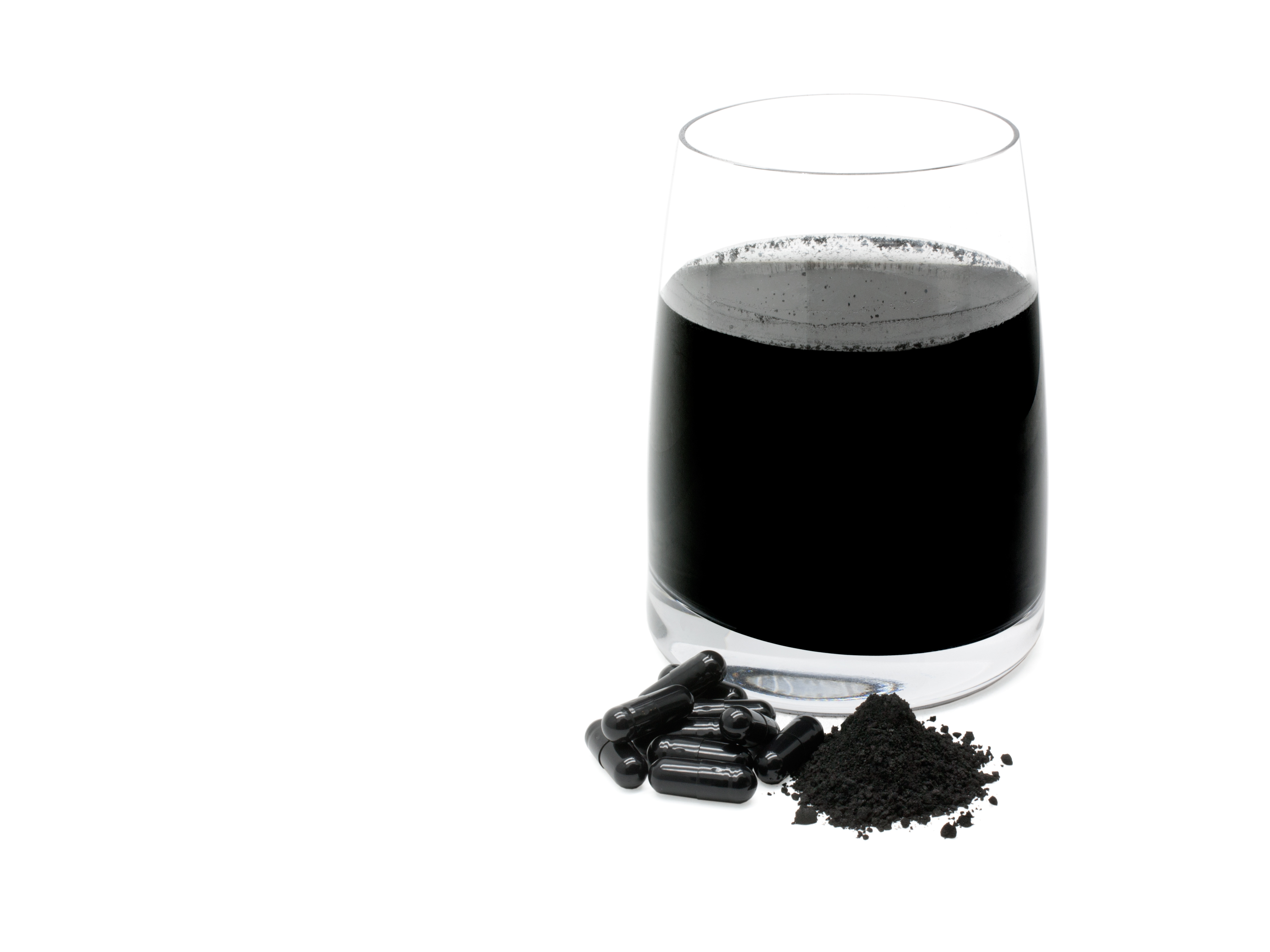 Activated charcoal in its natural form along with capsules and a drink. The capsules contain 200 mg of activated carbon each and the drink contains 1 gram of activated charcoal and approximately 250 ml of water.